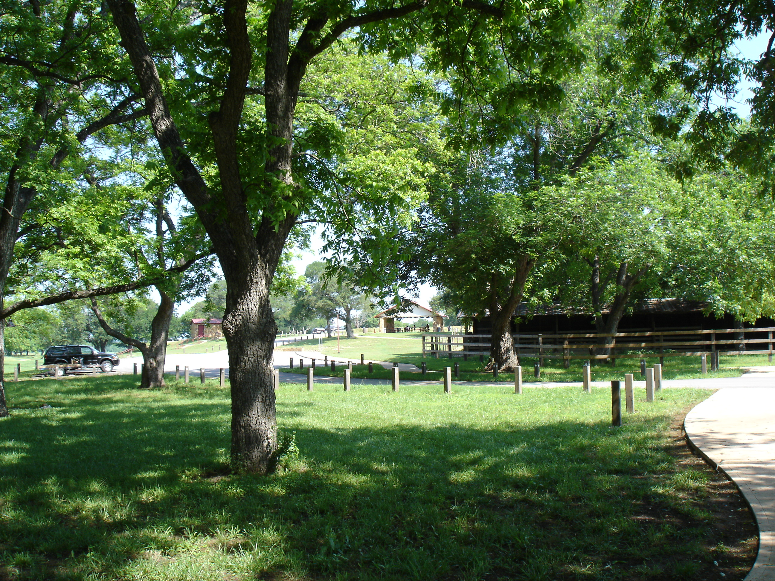 Berry Springs Park in May 2007